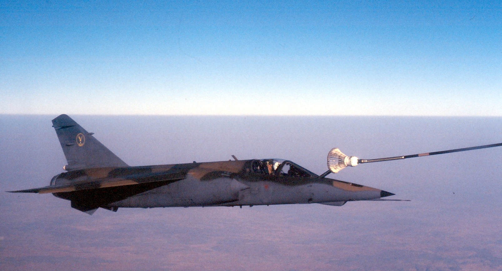 Mirage F1AZ no. 218 flown by Major Alan Brand refuelling from a B707